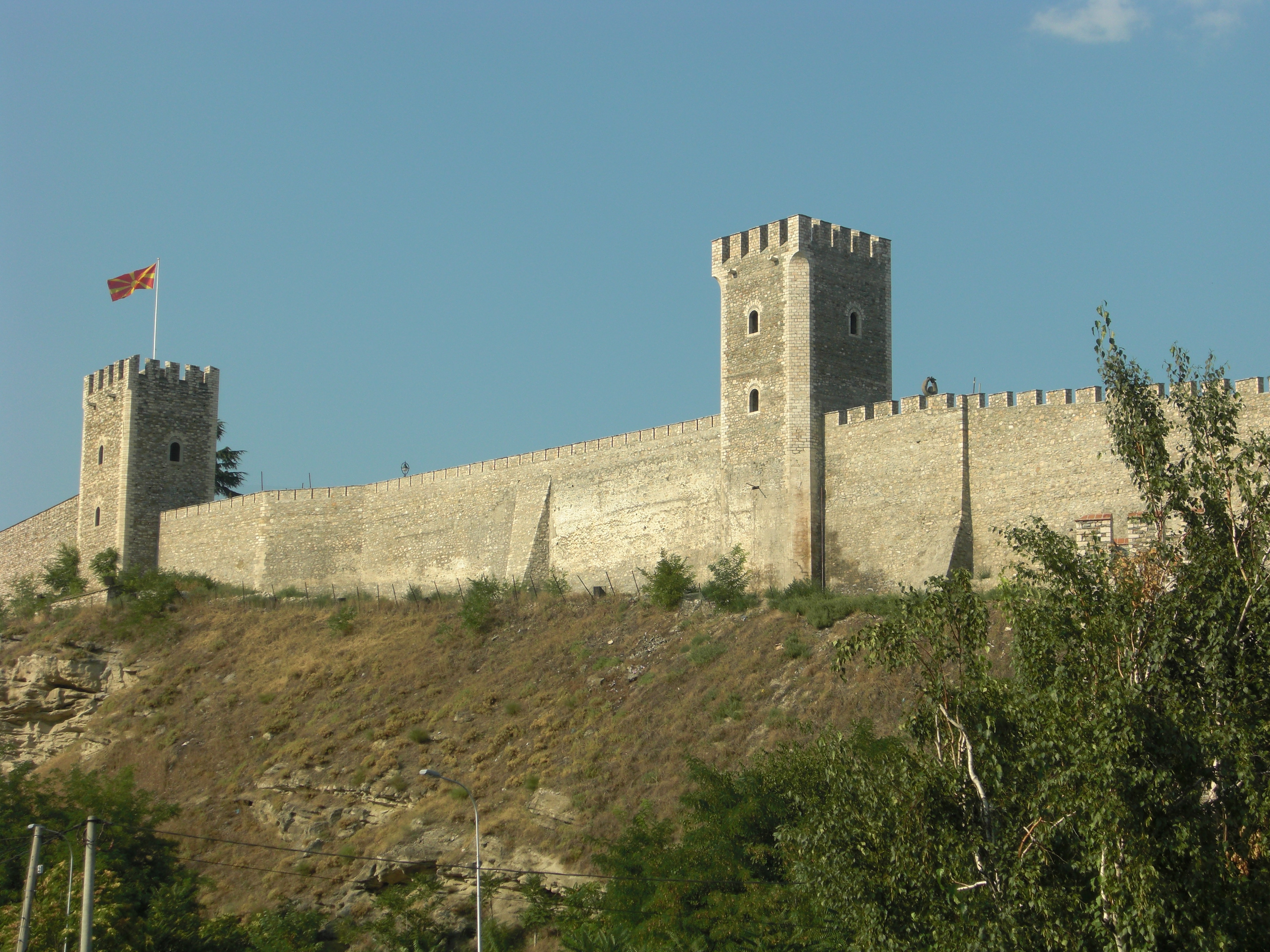 Kale Fortress in Skopje, Macedonia